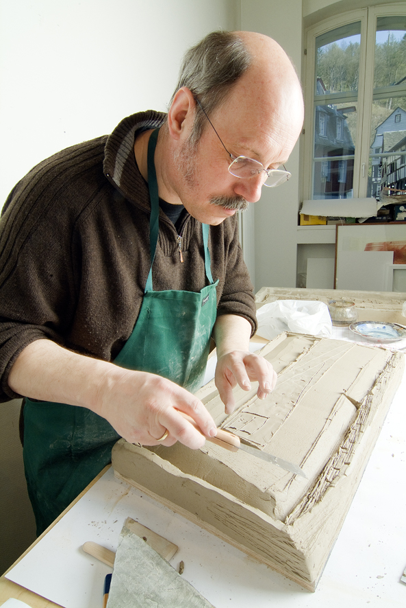 The German artist Gerhard Mevissen at work. With the permission of the photographer Pit Siebigs and the artist Gerhard Mevissen to publish on Wikipedia